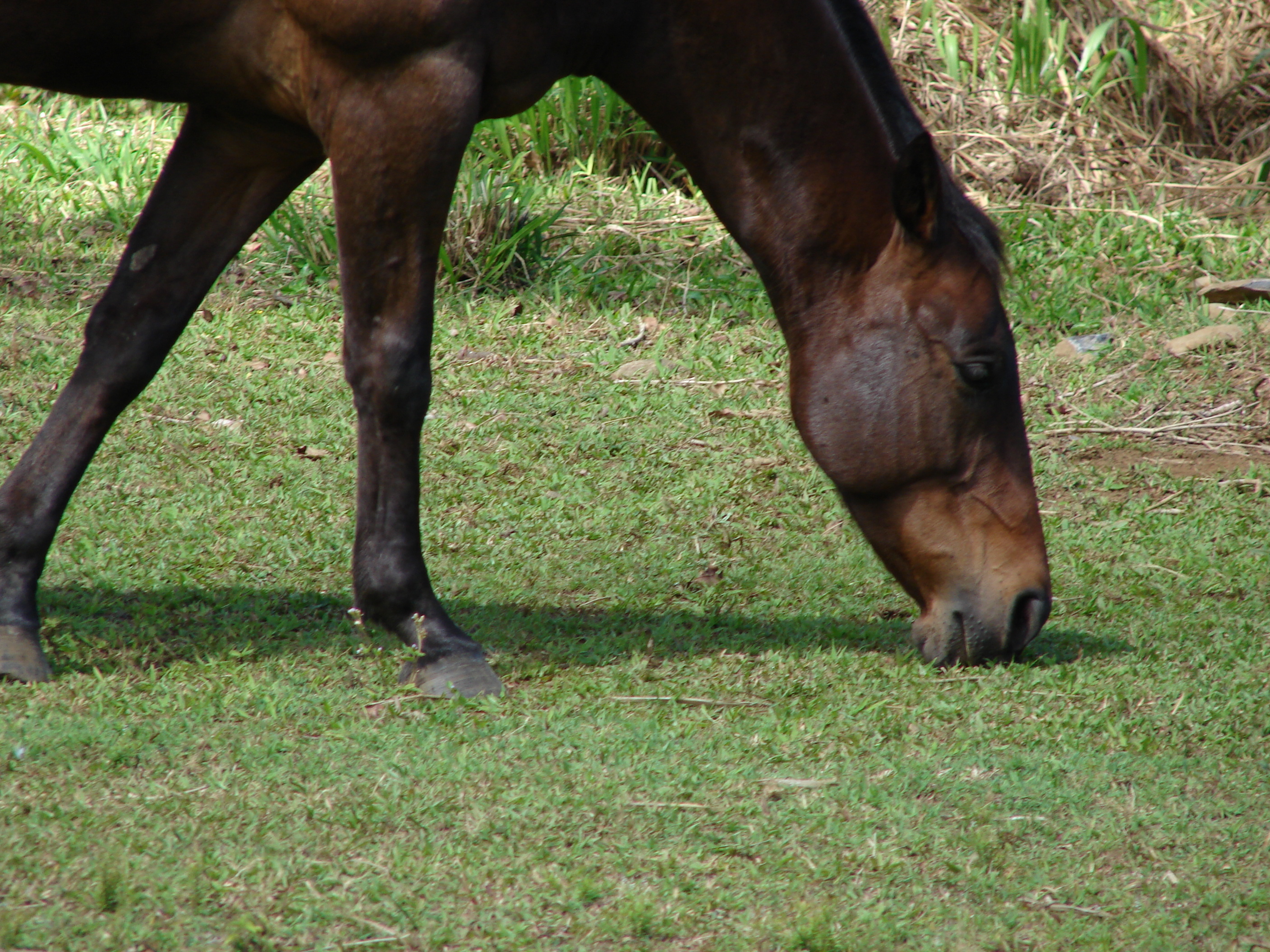 Paspalum conjugatum (habit and horse grazing). Location: Maui, Huelo